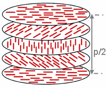 Schematic representation of cholesteric phase